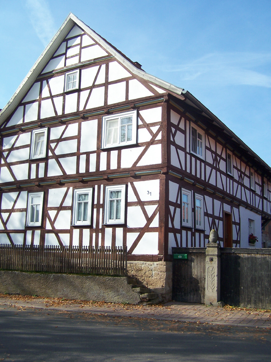 One of the oldest buildings in Kupfersuhl.